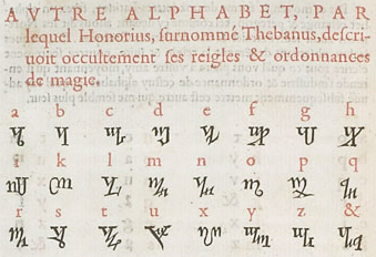 The Theban Alphabet